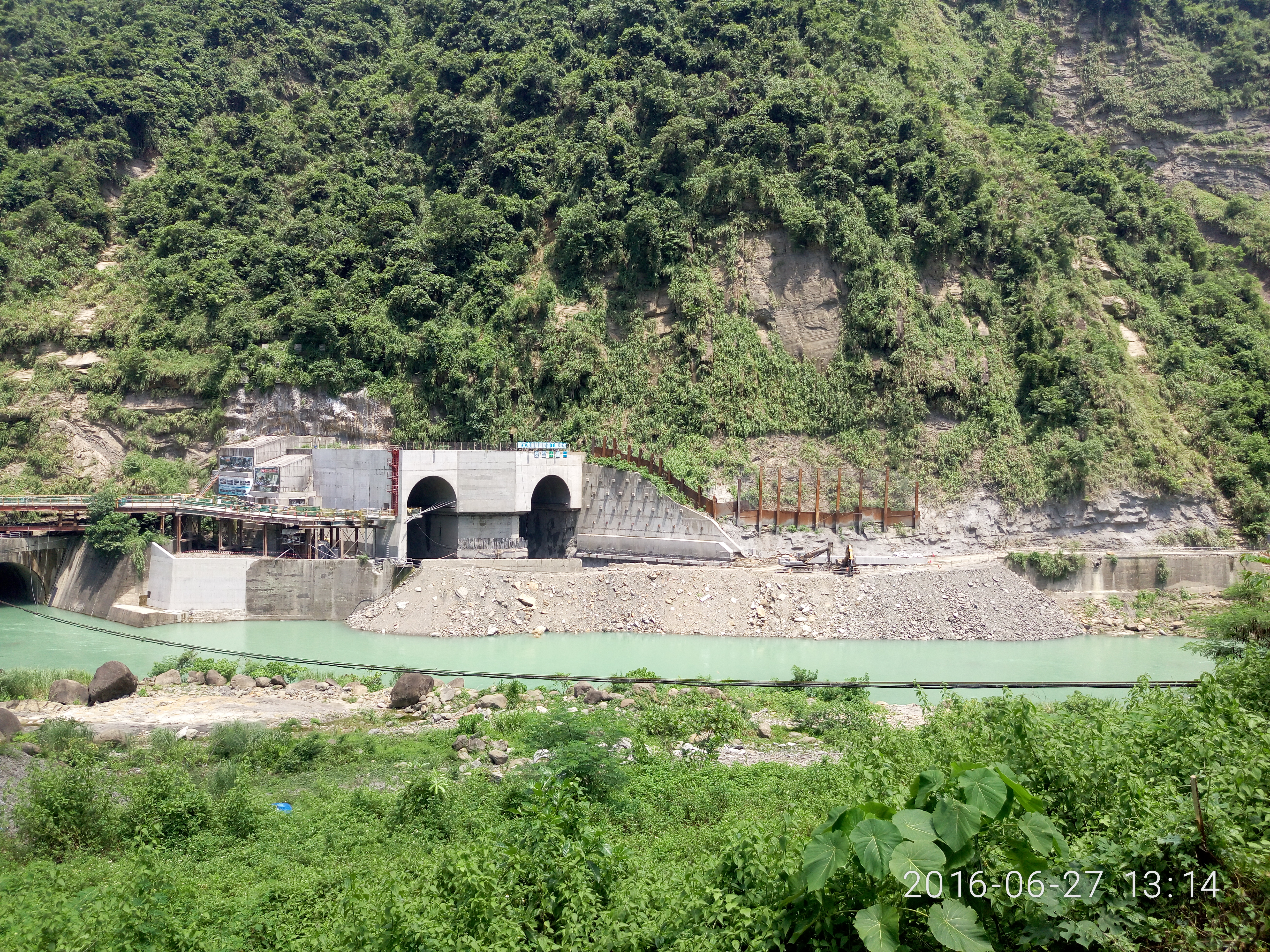 Desilting tunnel of Zengwun Reservoir